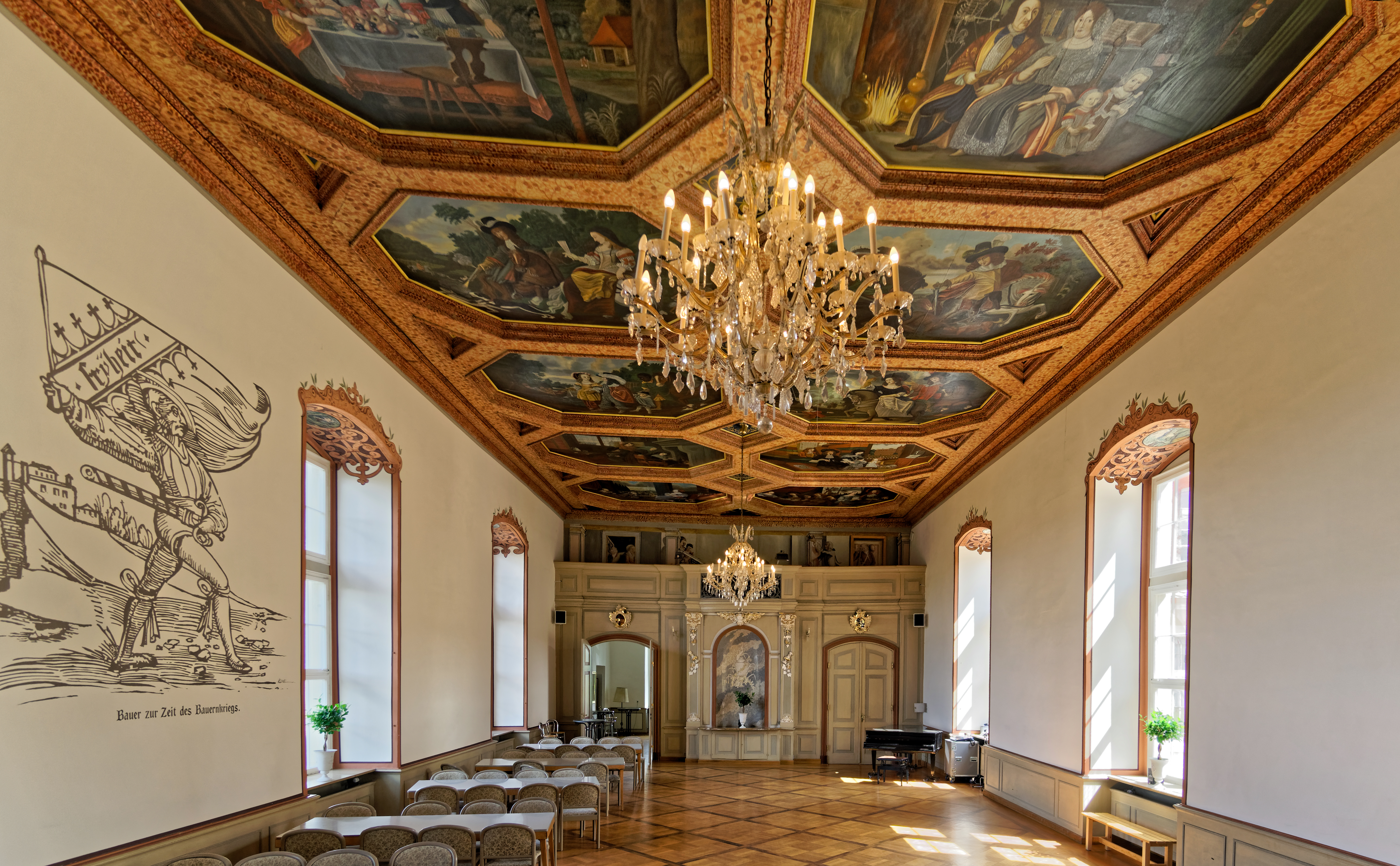 Kirchberg Castle on the Jagst.